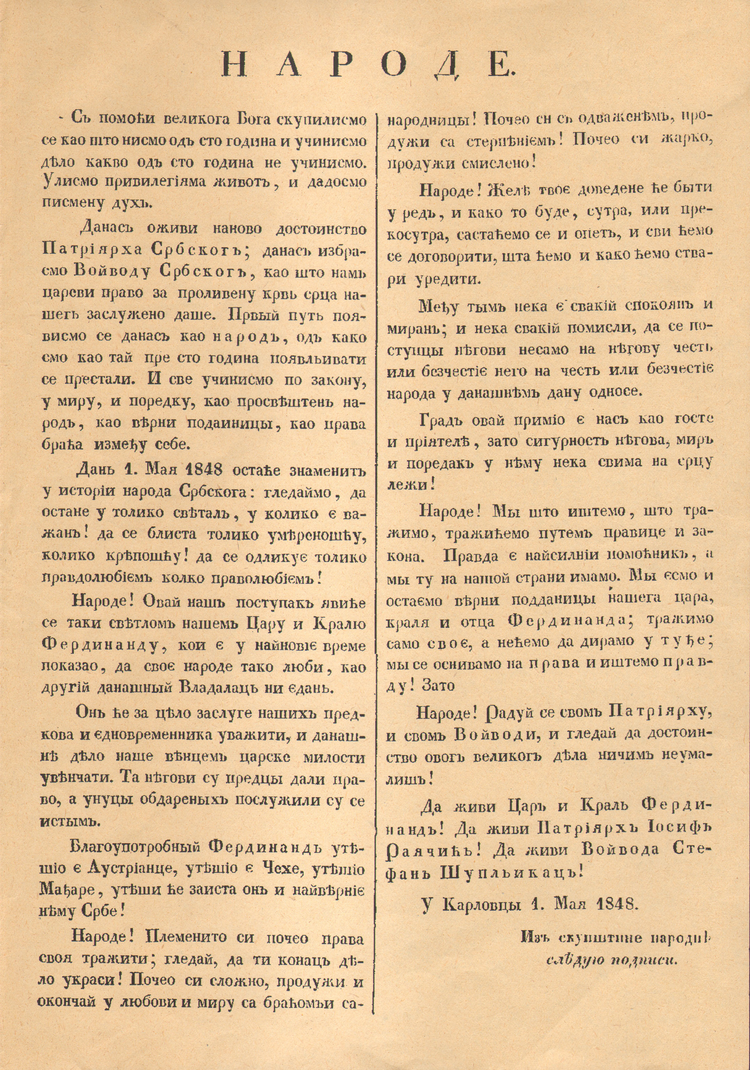 Proclamation from national assembly of the Serbs in Austrian Empire on May 1 1848